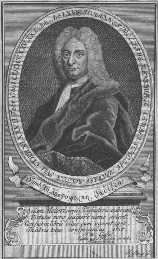 Portrait of Johann Moller (1661-1725)